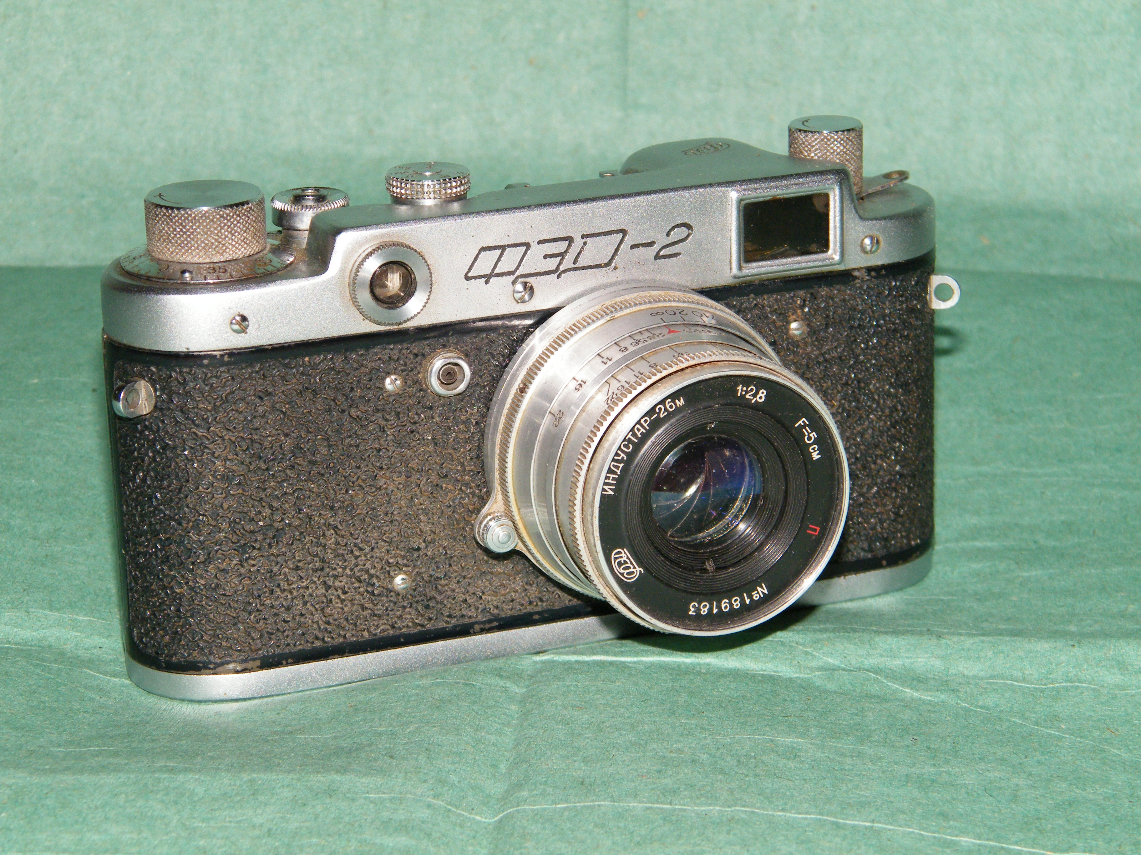 FED-2 edition 2 1958